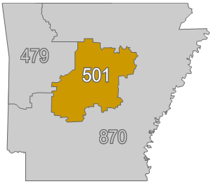 Area code map of Arkansas highlighting the region covered by area code 501.